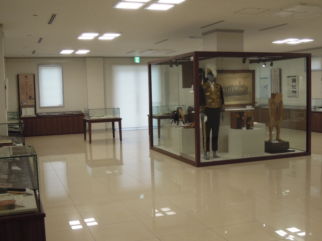 Kyushu University Medical History Museum (Fukuoka-City, Japan): Ground Floor